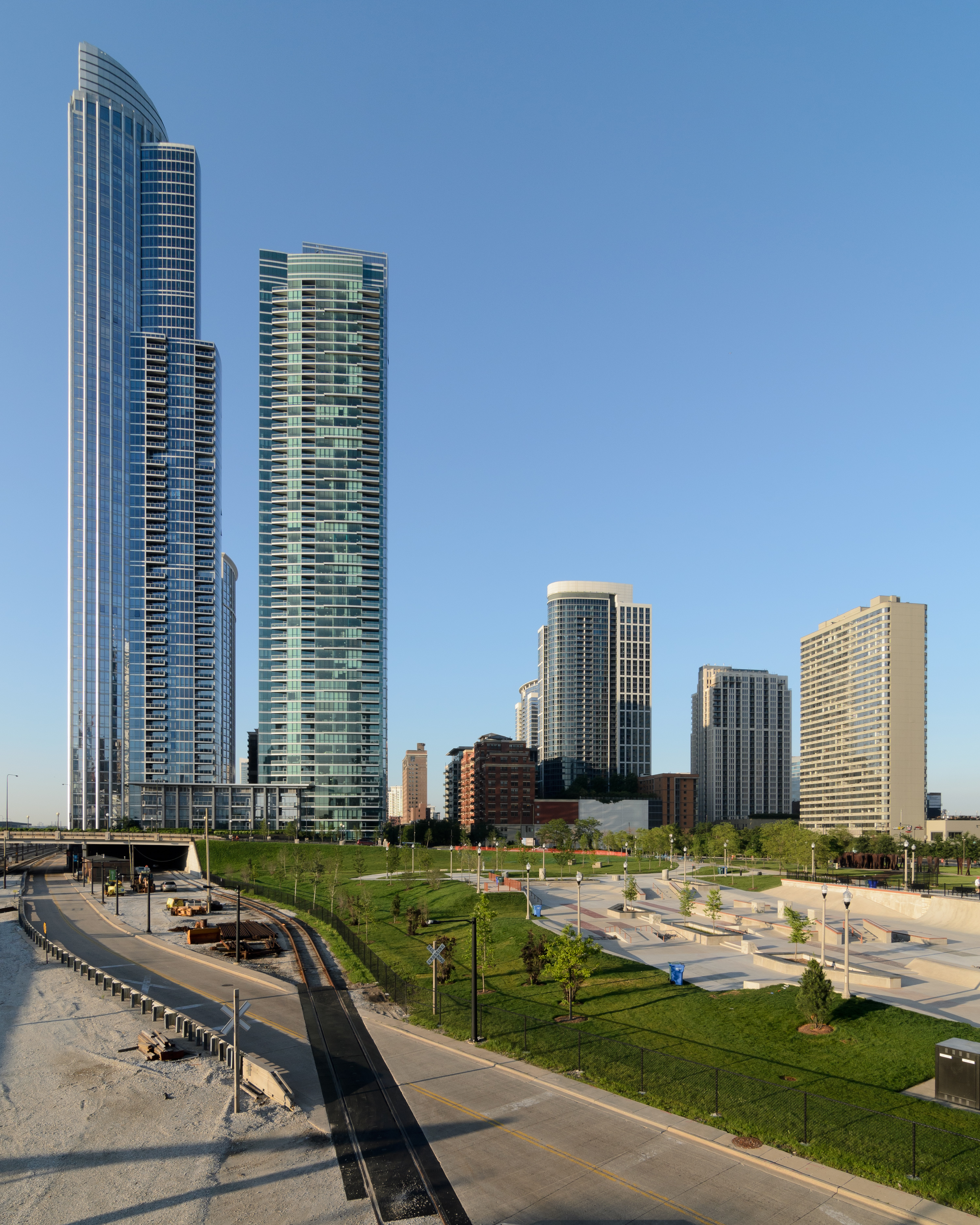 View of buildings in the South Loop, from a pedestrian bridge over Museum Campus/11th Street station, Chicago.